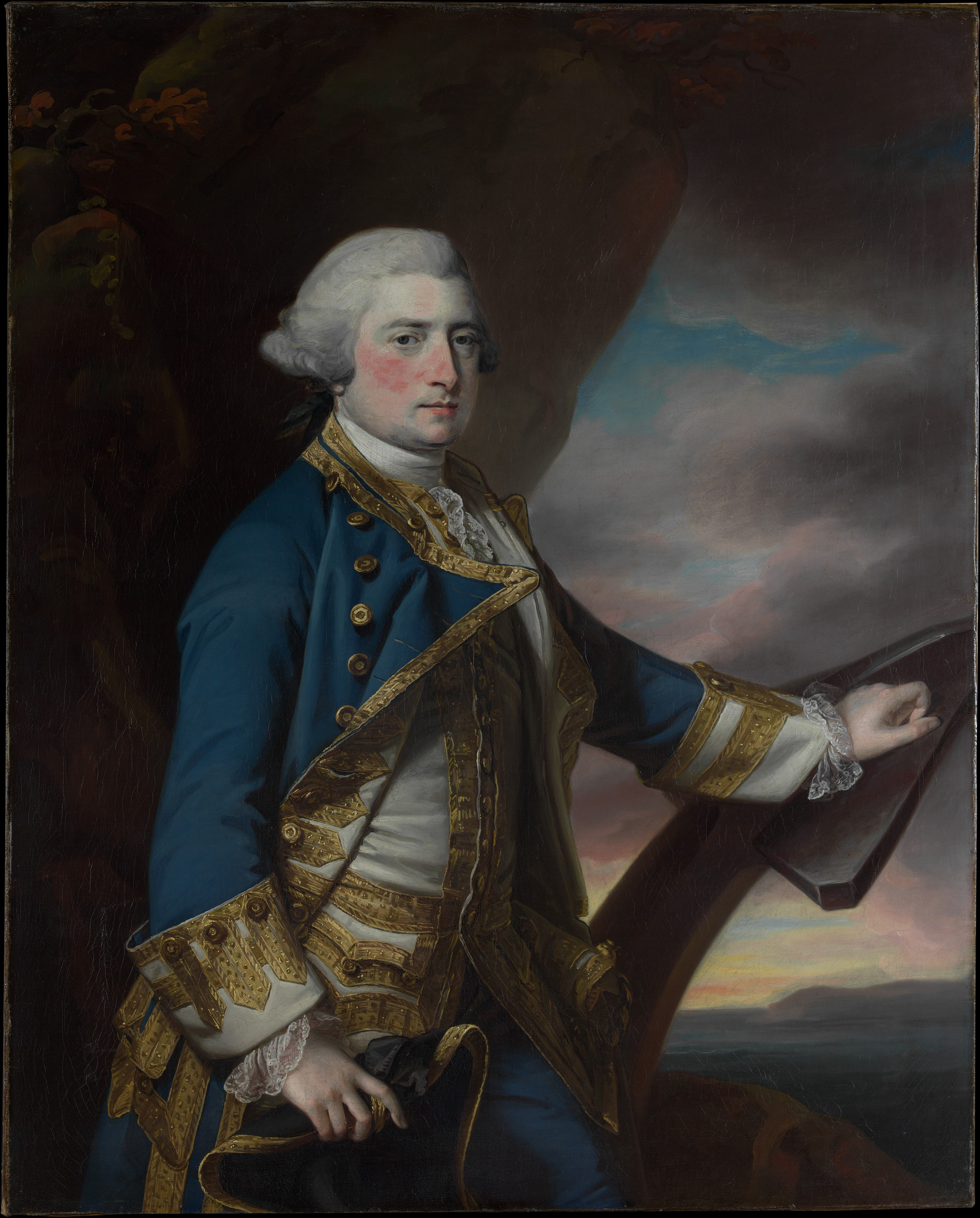 Admiral Harry Paulet (1719/20–1794), Sixth Duke of Bolton Artist: Francis Cotes (British, London 1726–1770 Richmond) Medium: Oil on canvas Dimensions: 50 x 40 in. (127 x 101.6 cm) Classification: Paintings Credit Line: Bequest of Jacob Ruppert, 1939